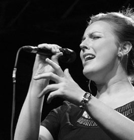 Sinne Eeg. Photo Hreinn GudlaugssonDansk: Sinne Eeg. Foto Hreinn Gudlaugsson